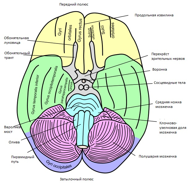 human brain, basal view, with russian names of main brain structures